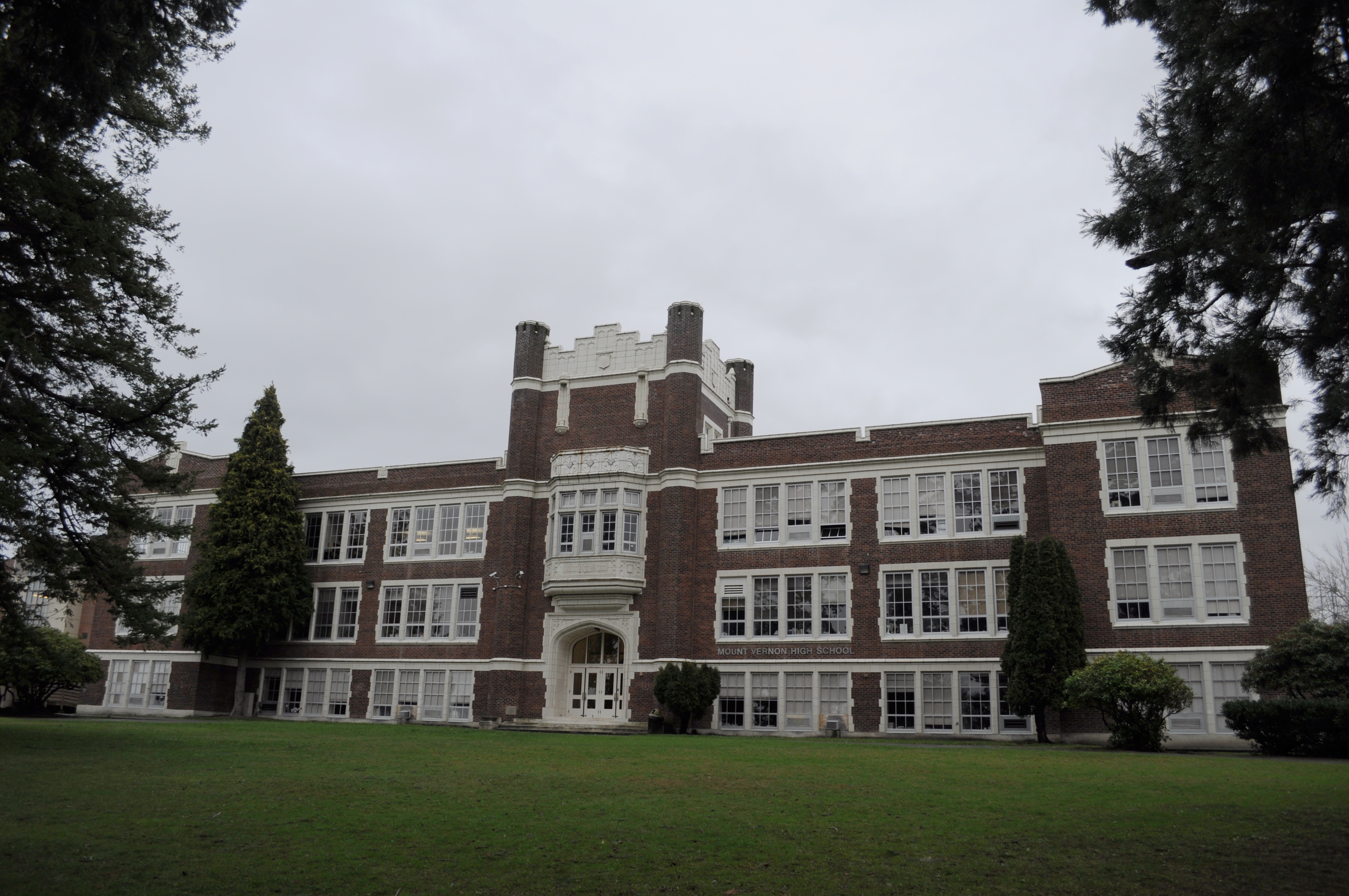 Mount Vernon High School (Old Main building), Mount Vernon, Washington.